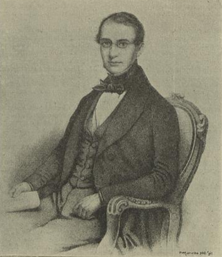 Ambassador, journalist and writer António Ribeiro Saraiva (1800-1890) in 1849 published in O Occidente (1900)